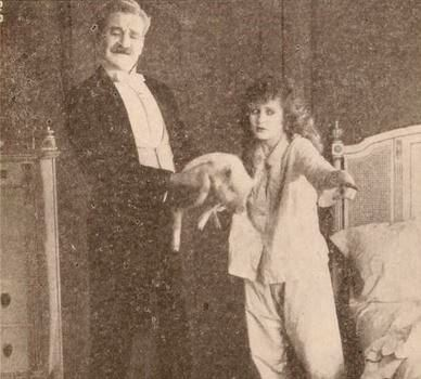 Still from the American film The Little Terror (1917) with Ned Finley (? – 1920) and Violet Mersereau, on page 24 of the August 4, 1917 Exhibitors Herald.